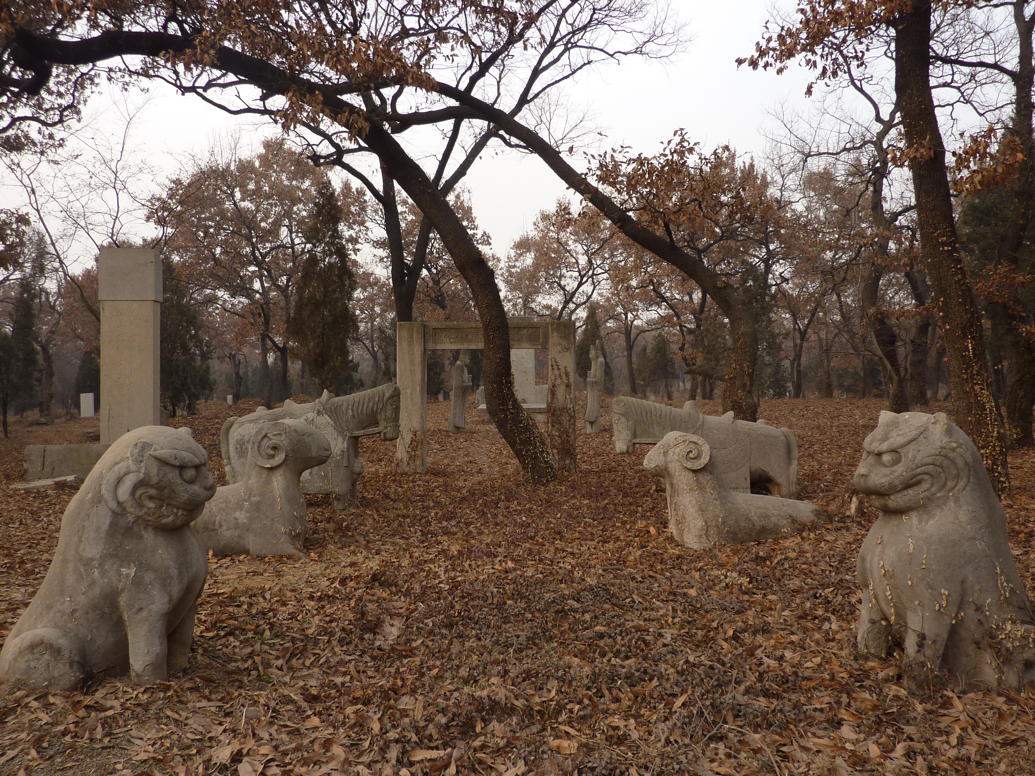 The area in the Ming (western) part of the Cemetery of Confucius where Dukes of Yansheng, who were the leaders of the Kong clan (55th through 64th generations in the direct line of descent from Confucius, according to an explanatory plaque) and the feudal rulers of Qufu, have been buried. Each of the dukes has his own "spirit road" (shendao), i.e. a a path lined with the statues of feline creatures (cat? lions? tigers?), rams, horses, warriors and officials, concluded with a stele-bearing bixi tortoise, and, finally, the actual tombstone. As elsewhere in China, the tombstones and the bixi normally face south, while the spirit way figures face each other, looking across the path that runs from the south to the north.